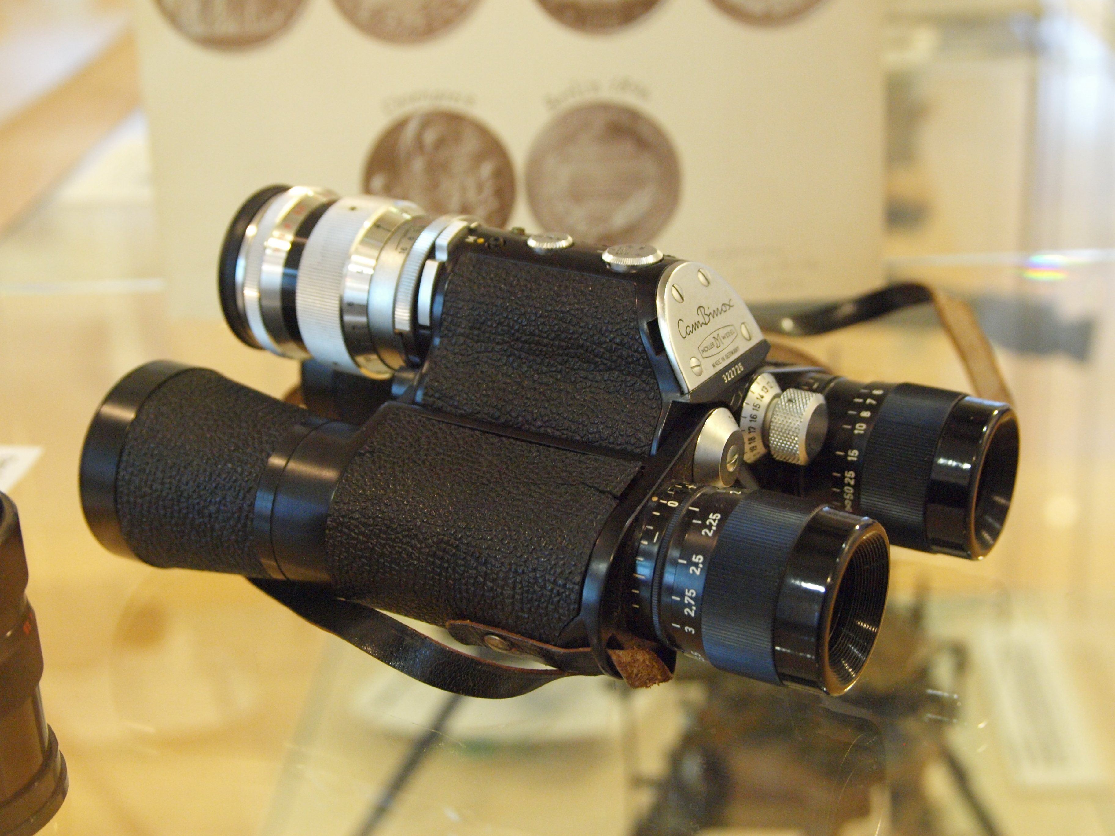 Möller-Wedel CamBinox - Combinded binocular with integrated camera. The cameras objetive is coverd by a lid. Manufactured in the 1950s by Möller-Wedel, Germany. Photographed at Stadtmuseum Wedel (Kreis Pinneberg) Germany.